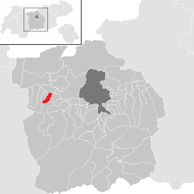 District Innsbruck Land